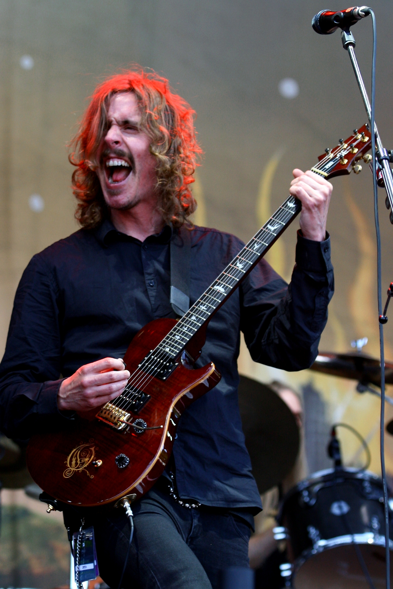 Mikael Åkerfeldt, singer of Opeth, Rock im Park Festival 2014. Festivalsommer This photo was created with the support of donations to Wikimedia Deutschland in the context of the CPB project "Festival Summer".